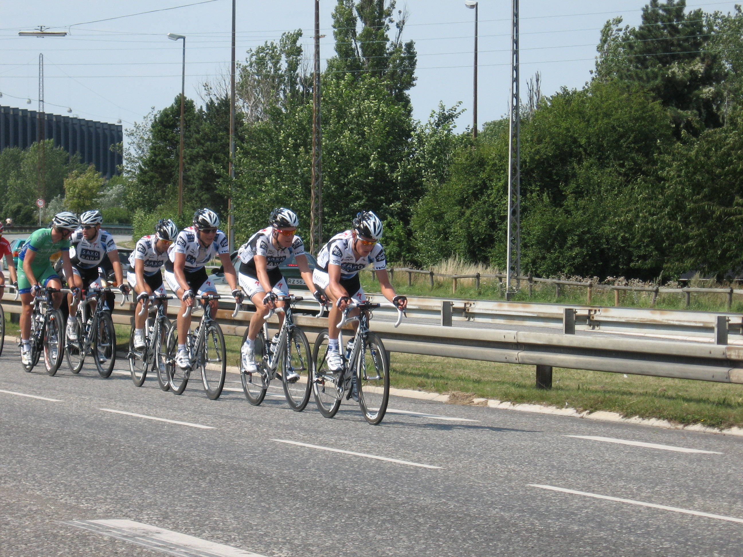 Stage 6 of the 2009 Post Danmark Rundt. The peloton is chasing a breakaway of four riders, who have a lead of 1:50 minutes, and are passing Vestforbrænding on its way to the finish in Frederiksberg (Copenhagen).